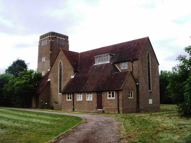 St Mary, Little Chart. The church was built in 1955. It replaced a medieval church which was destroyed in the Second World War and whose ruins lie in TQ9346.